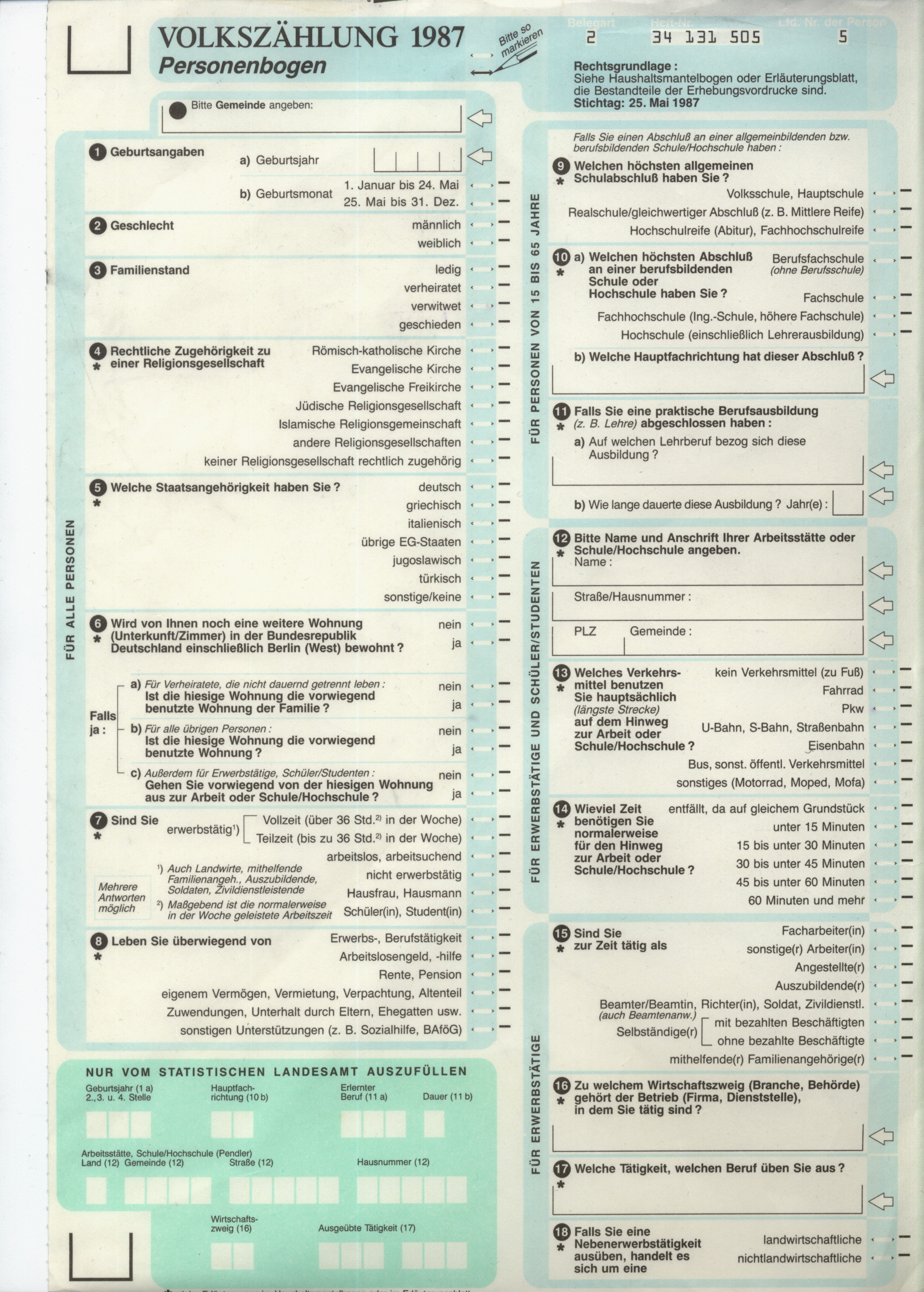 Form of German census of 1987